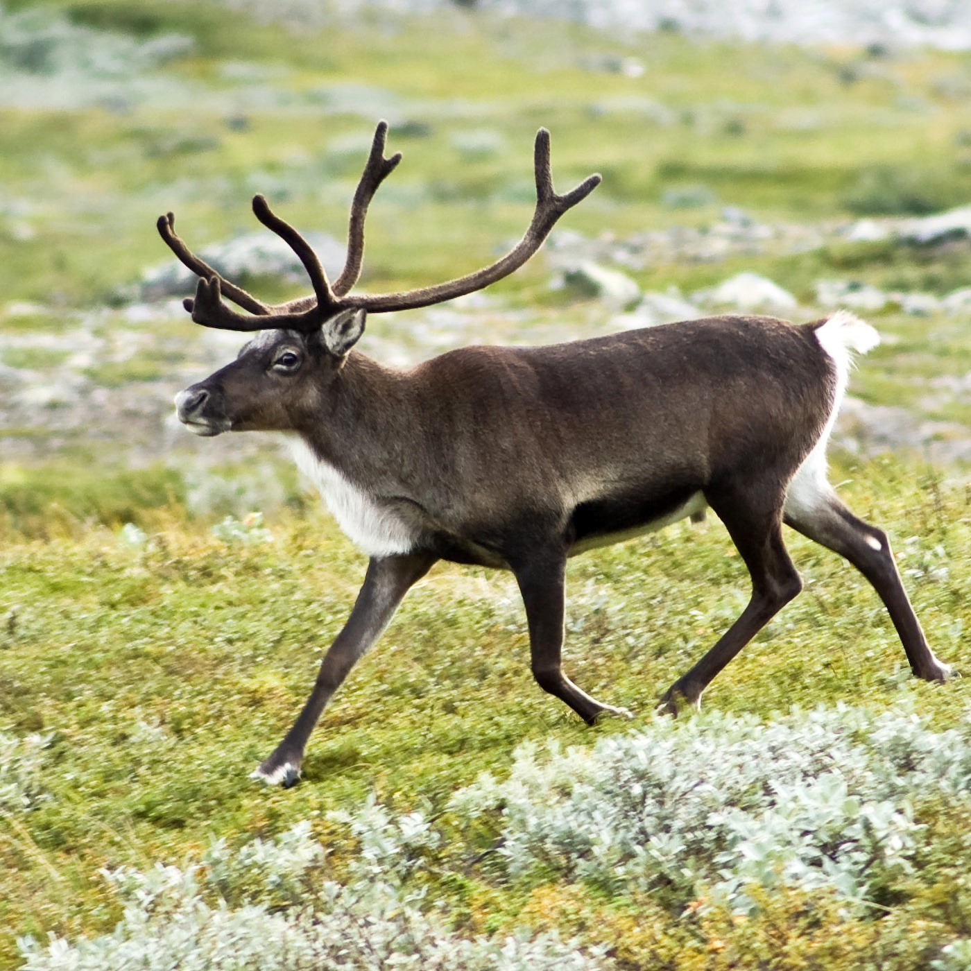 Strolling reindeer (Rangifer tarandus) in the Kebnekaise valley, Lappland, Sweden.